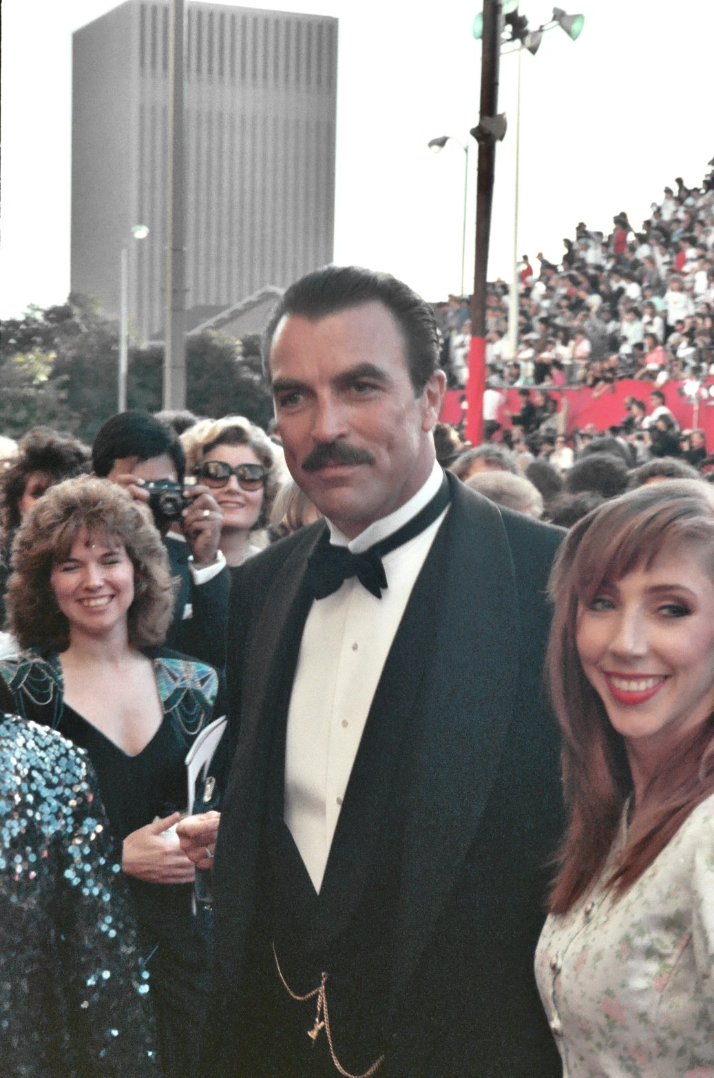 Tom Selleck @ 61st Annual Academy Awards, 1989.